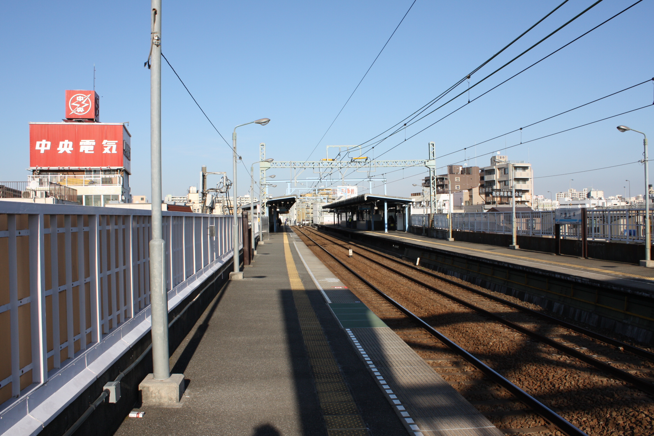 Keikyu Rokugo Dote station platforms, viewing from the Keikyu Kawasaki side to the Zoshiki direction